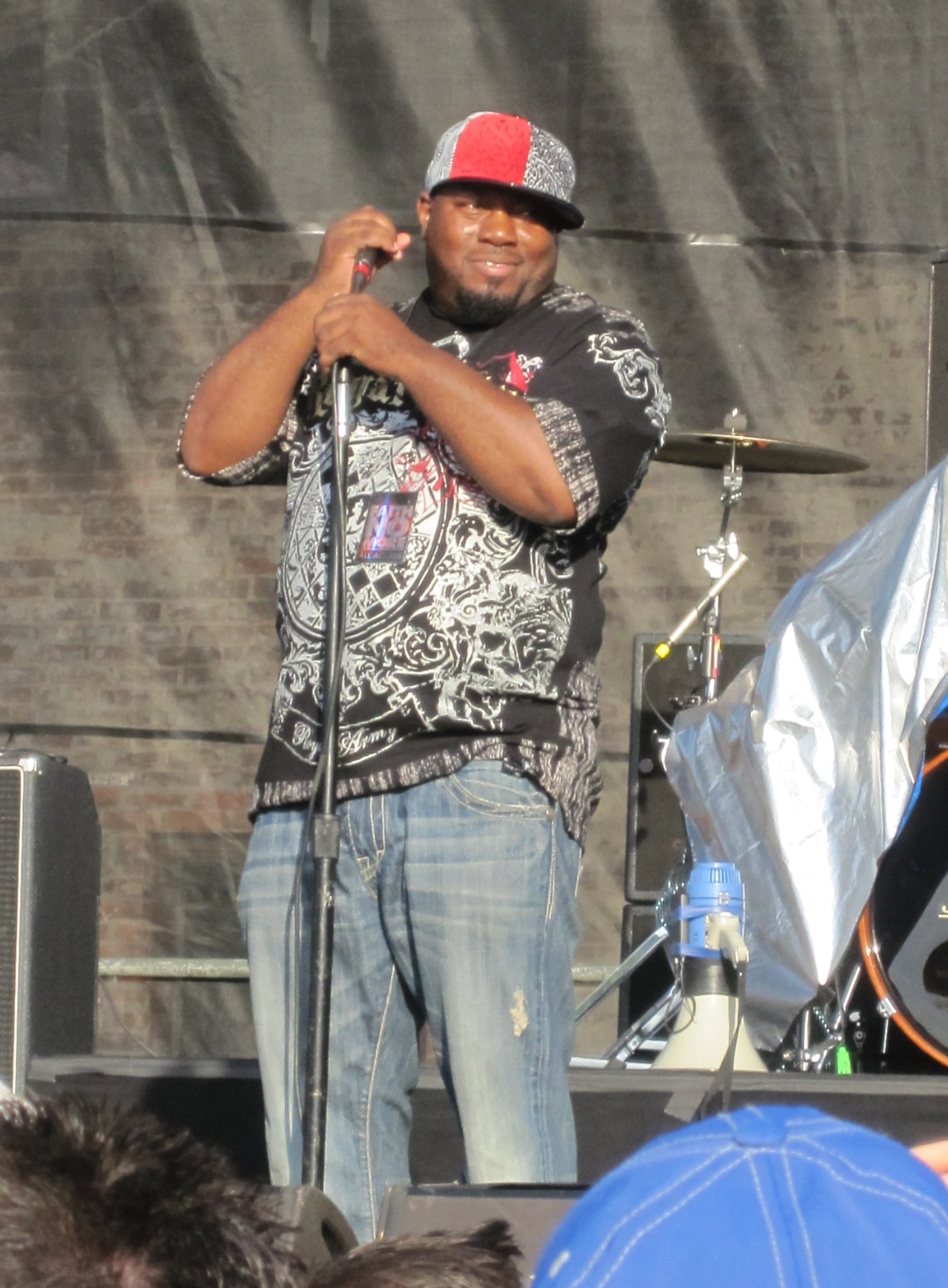 Rahzel opening for Faith No More, July 2010